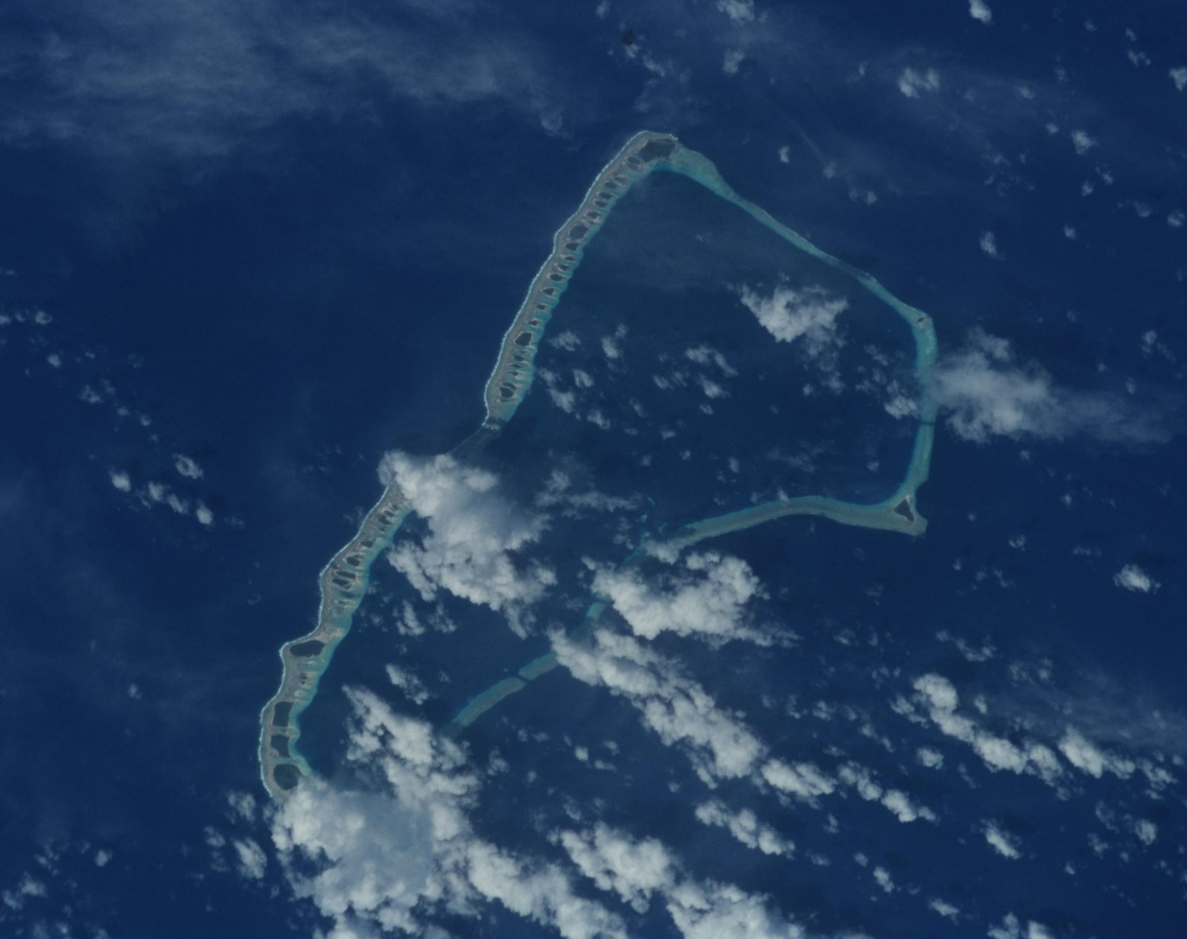 NASA Astronaut Image of Jaluit Atoll (Ralik Chain, Marshall Islands) in the Pacific Ocean